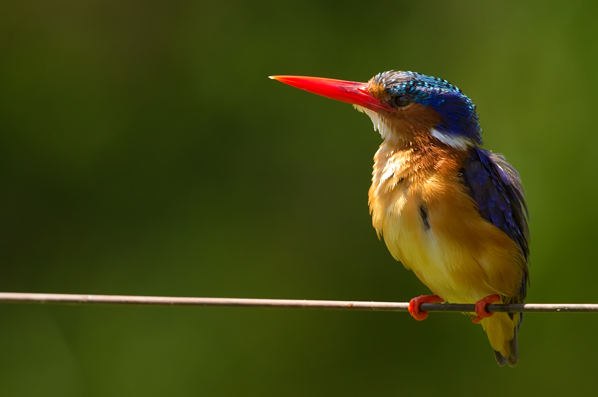 A Malachite Kingfisher at Lake Naivasha, Kenya